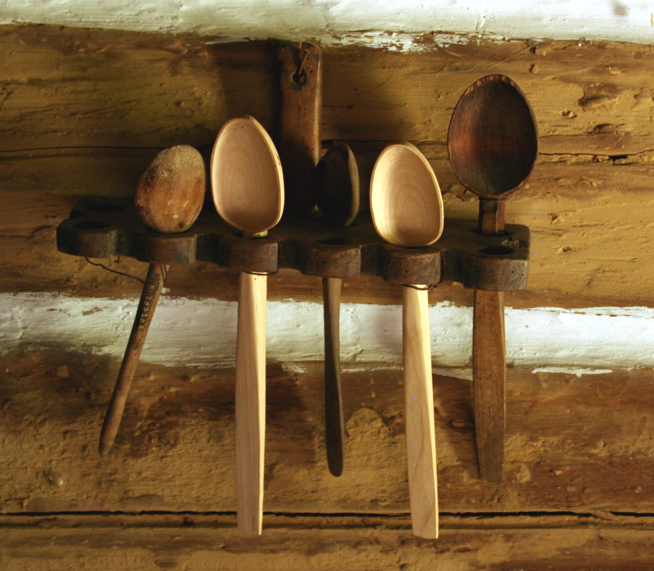 Wooden spoon rack, Skansen in Sanok, Poland.